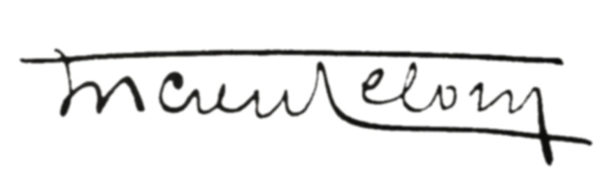 Signature of Lucien Lelong. Derived from File:Tissus Robert Perrier - 1946 Publicity.jpg. Digitally edited.